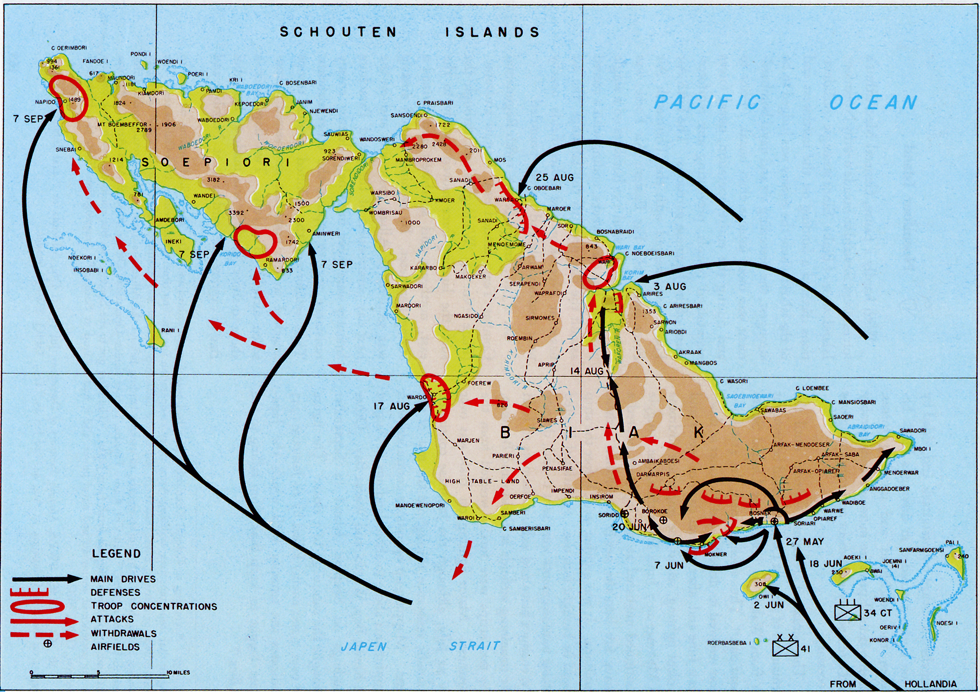 Biak Island Operation, 27 May-20 August 1944